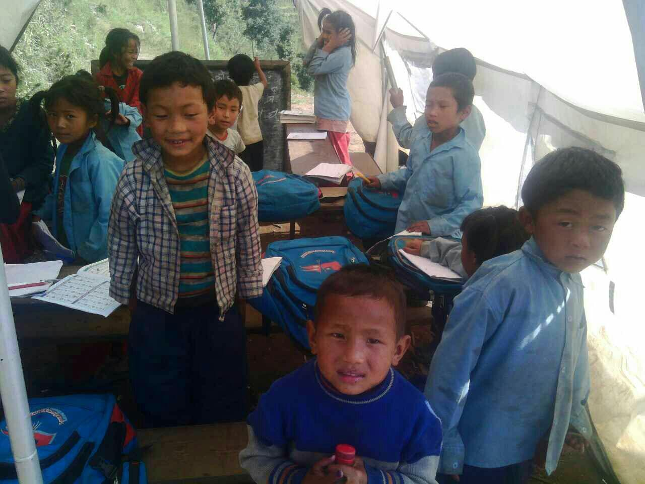 students are studying in the tent after huge earthquake in nepal 25 april 2015 (Tasina, Gaurishankar VDC, Dolakha, Nepal.